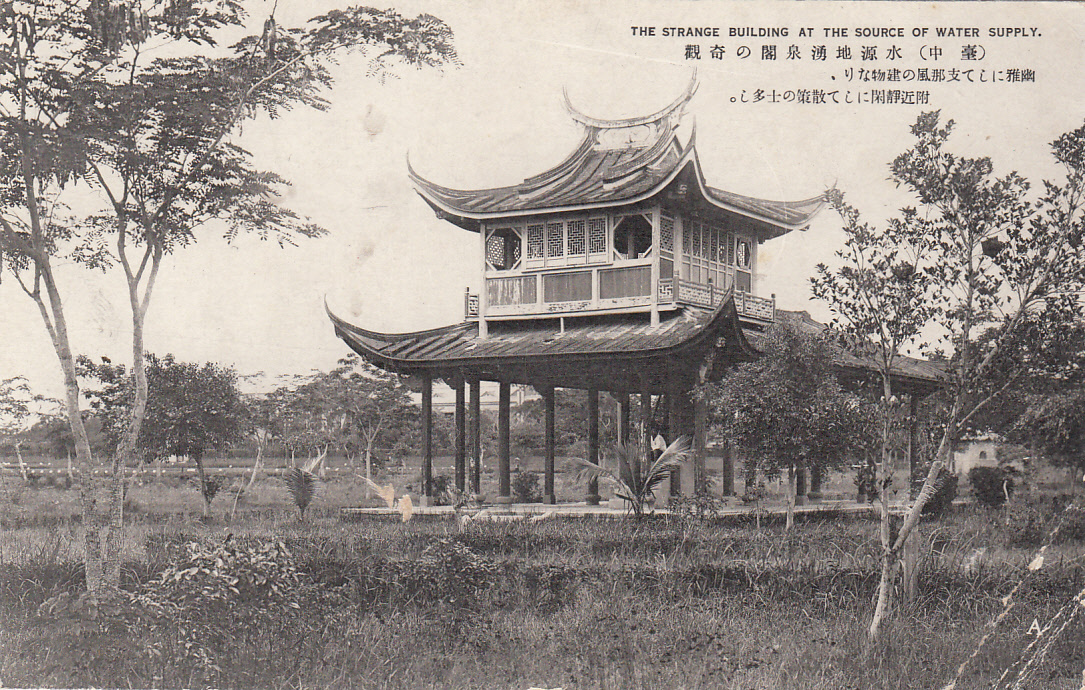 Building near the water source in Taichu(Taichung).